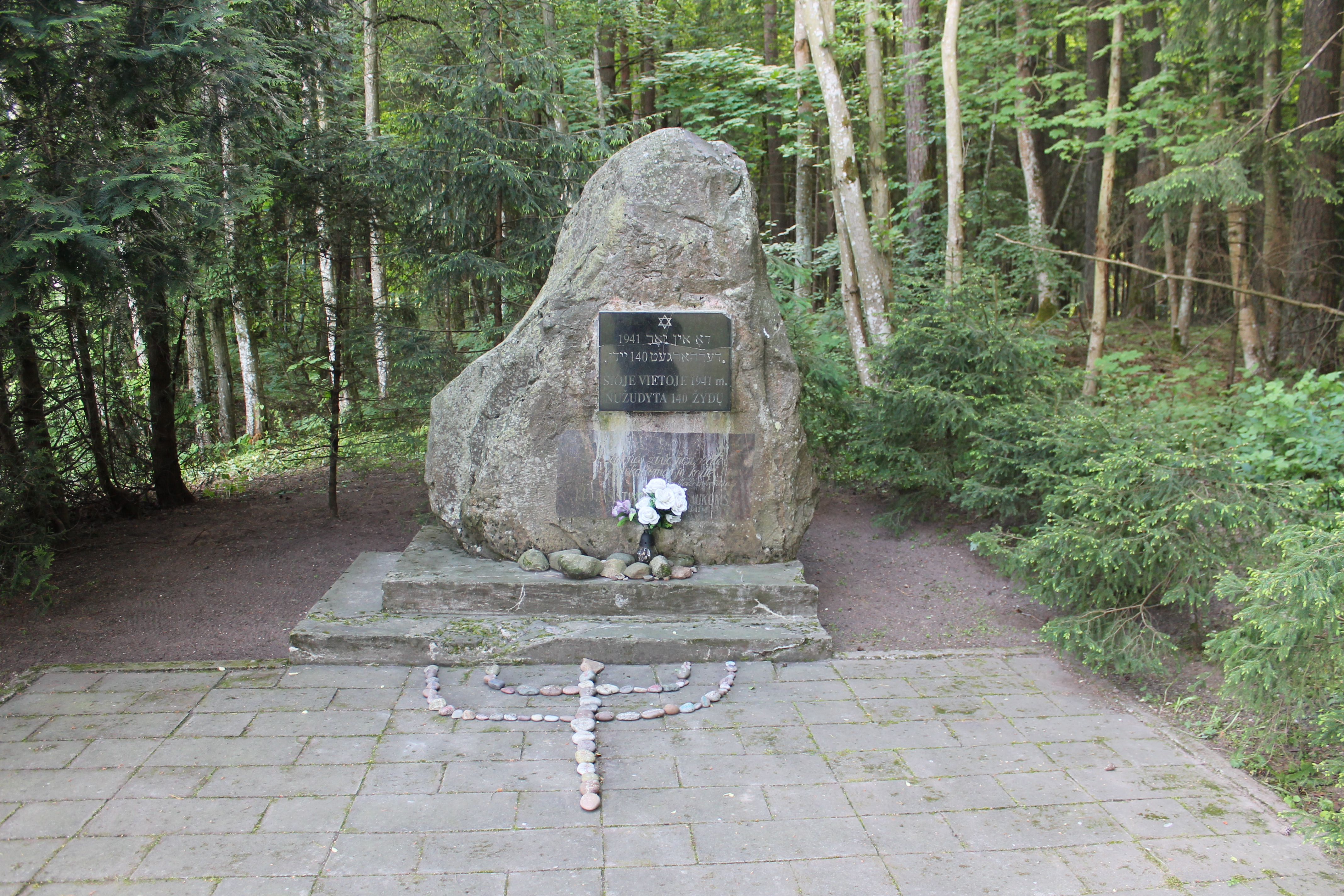 Holocaust Mass Graves, Darbenai, Kretinga district, LithuaniaLietuvių: Darbėnų žydų I holokausto vieta, Kretingos rajonas, Lietuva